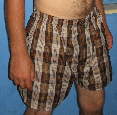 A pair of brown and grey checked boxer shorts.